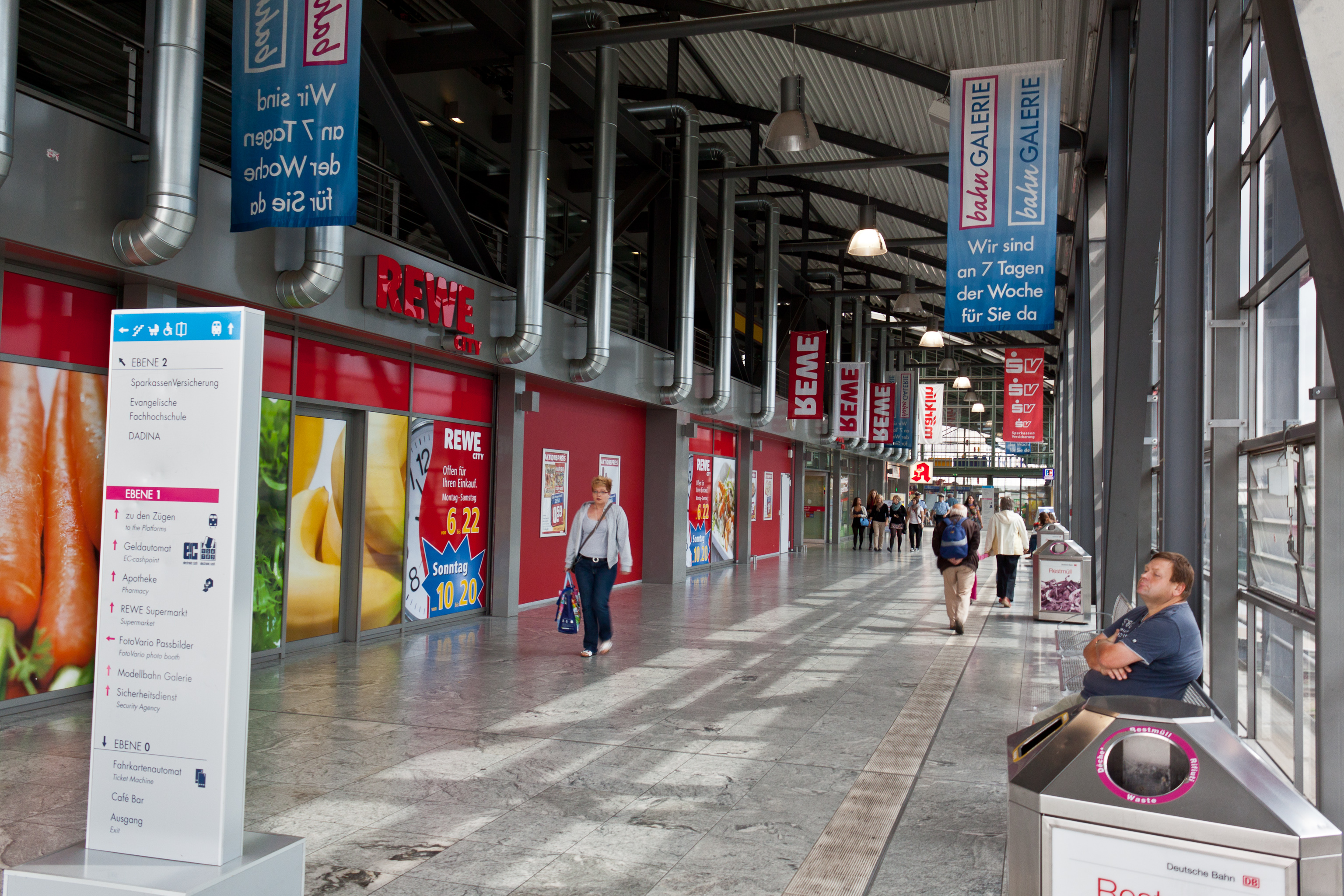 Inner view of the western building of the main train station of Darmstadt, Germany